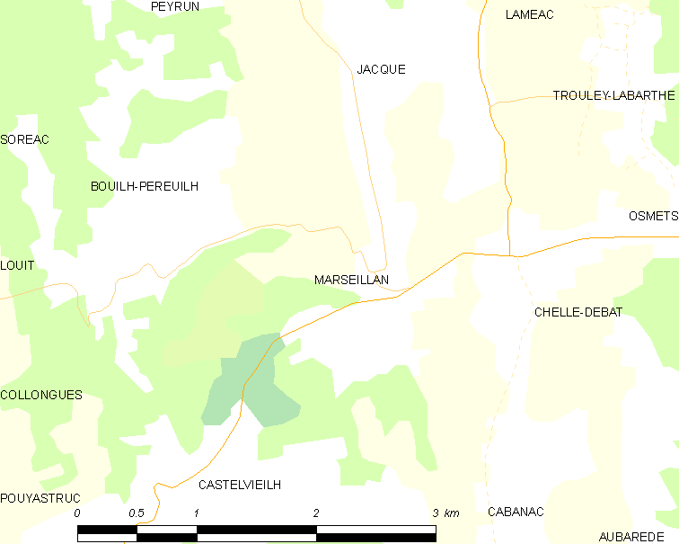 Map of French municipality